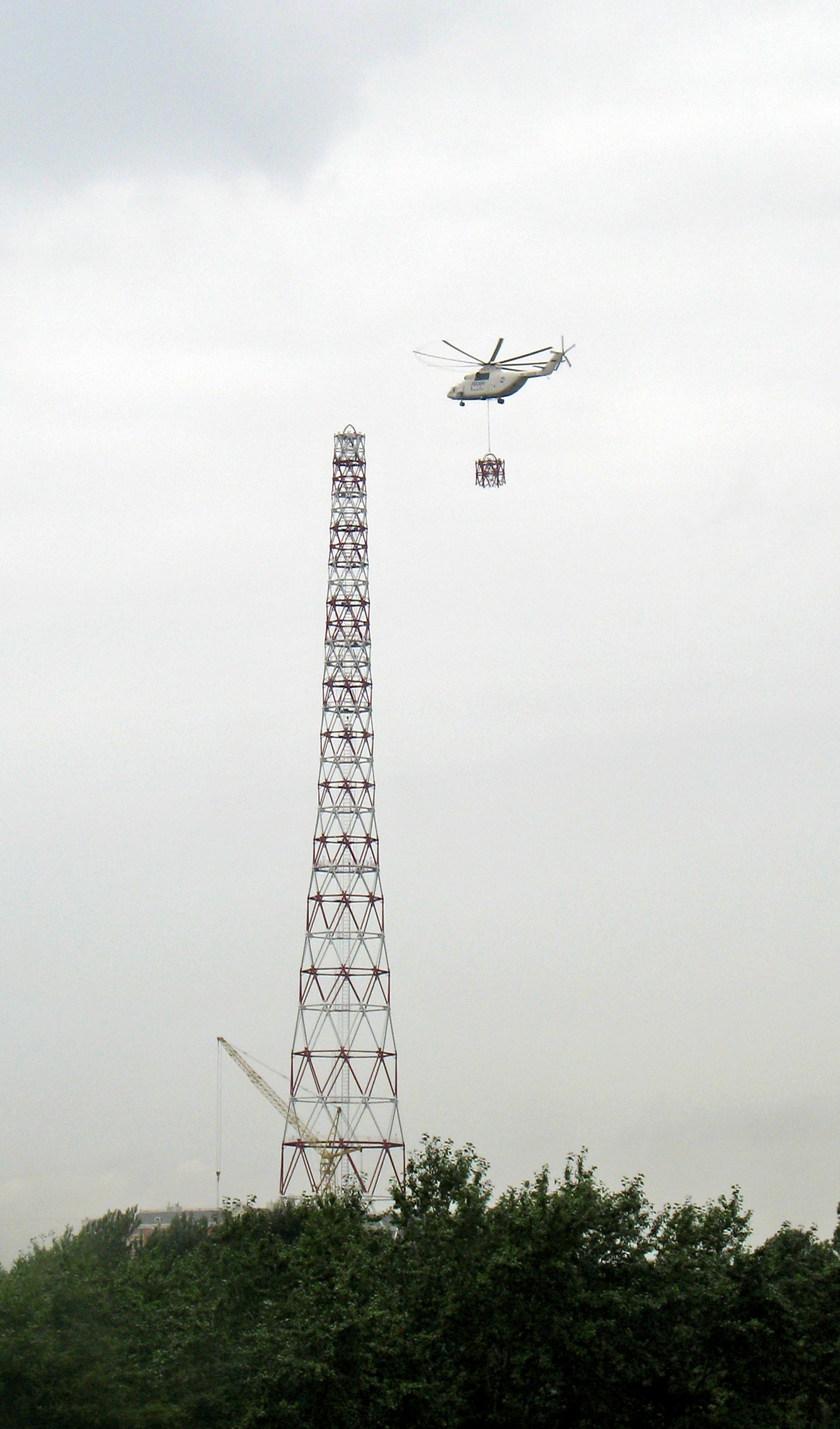 Radio television tower of the Oktjabrskij radio centre building (Moscow, Damian Bednogo's street, 24)